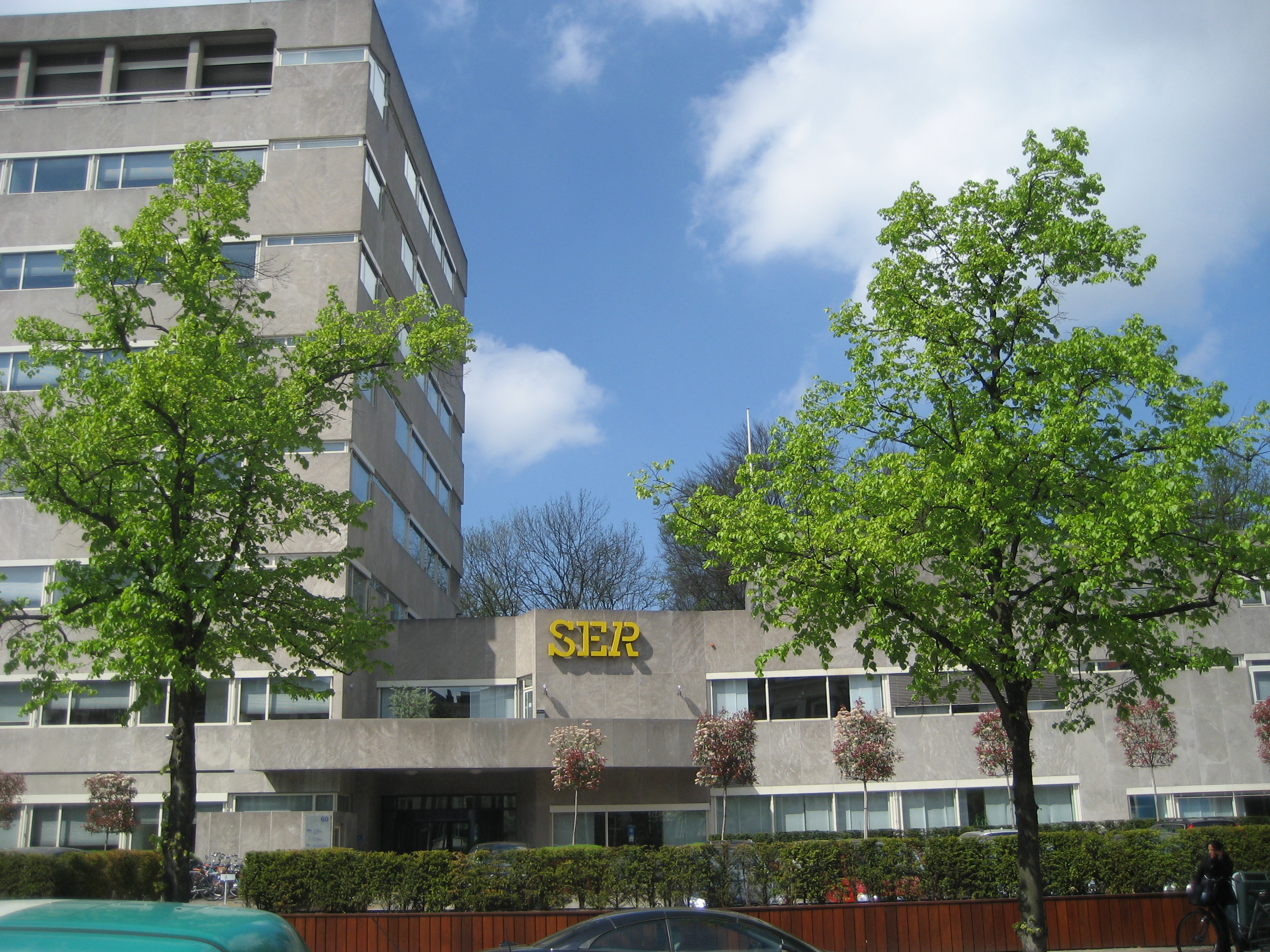 Building of SER (Social-Economic Council) The Hague, The Netherlands, April 2014